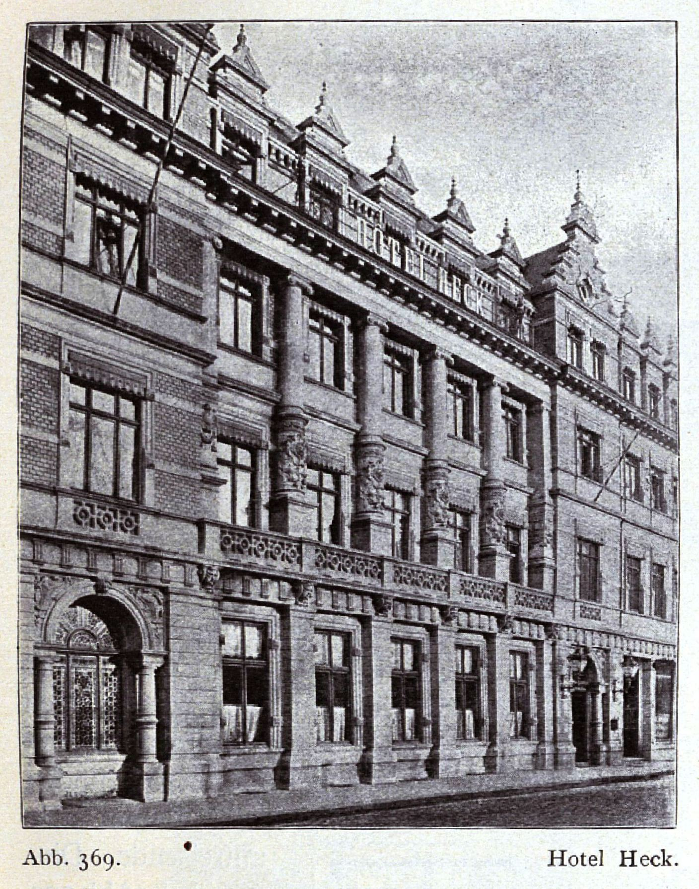 t